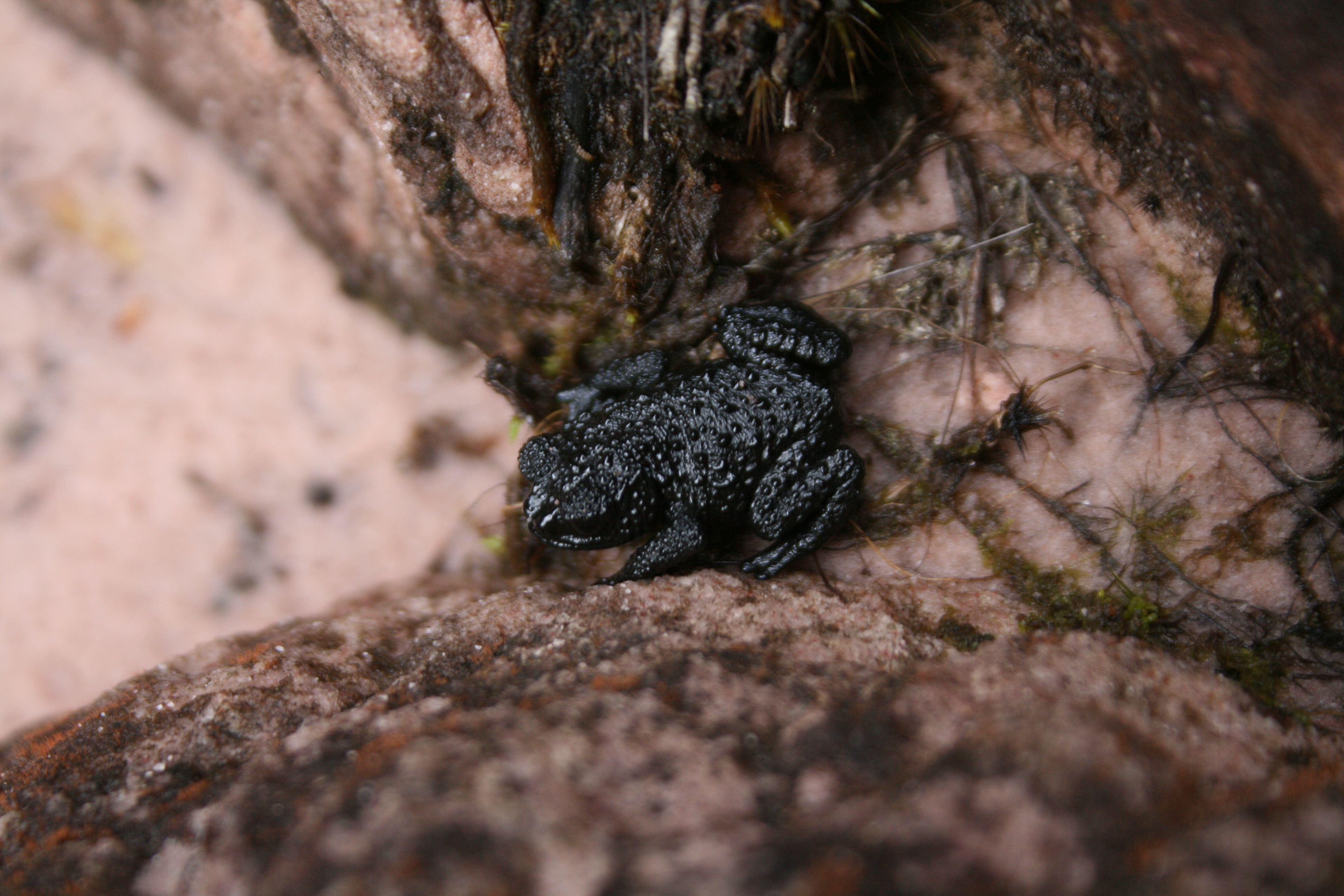 Oreophrynella nigra at mount Roraima, Venezuela